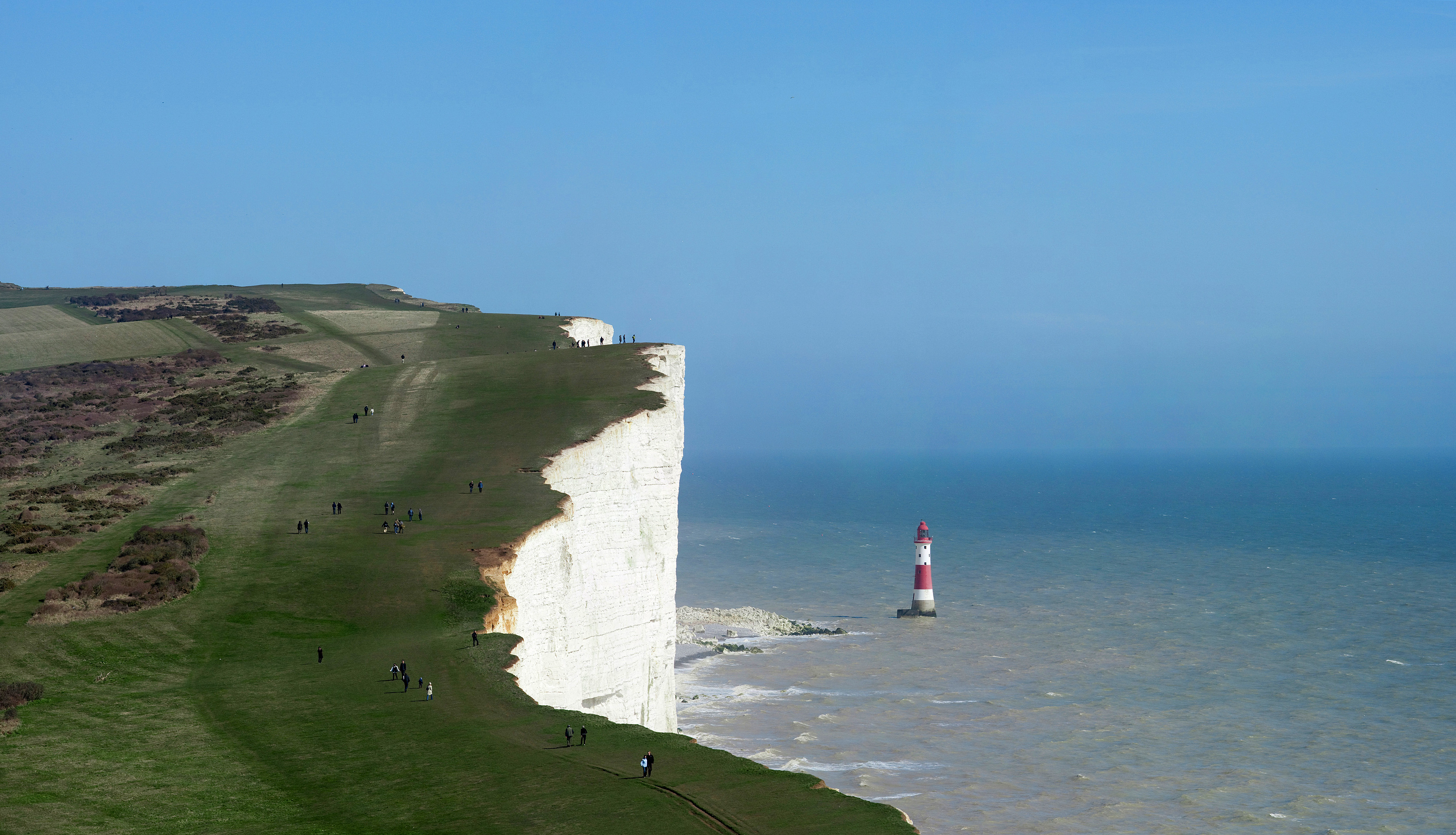 The cliffs of Beachy Head and the Lighthouse below, as viewed along the South Downs Way in East Sussex, England.